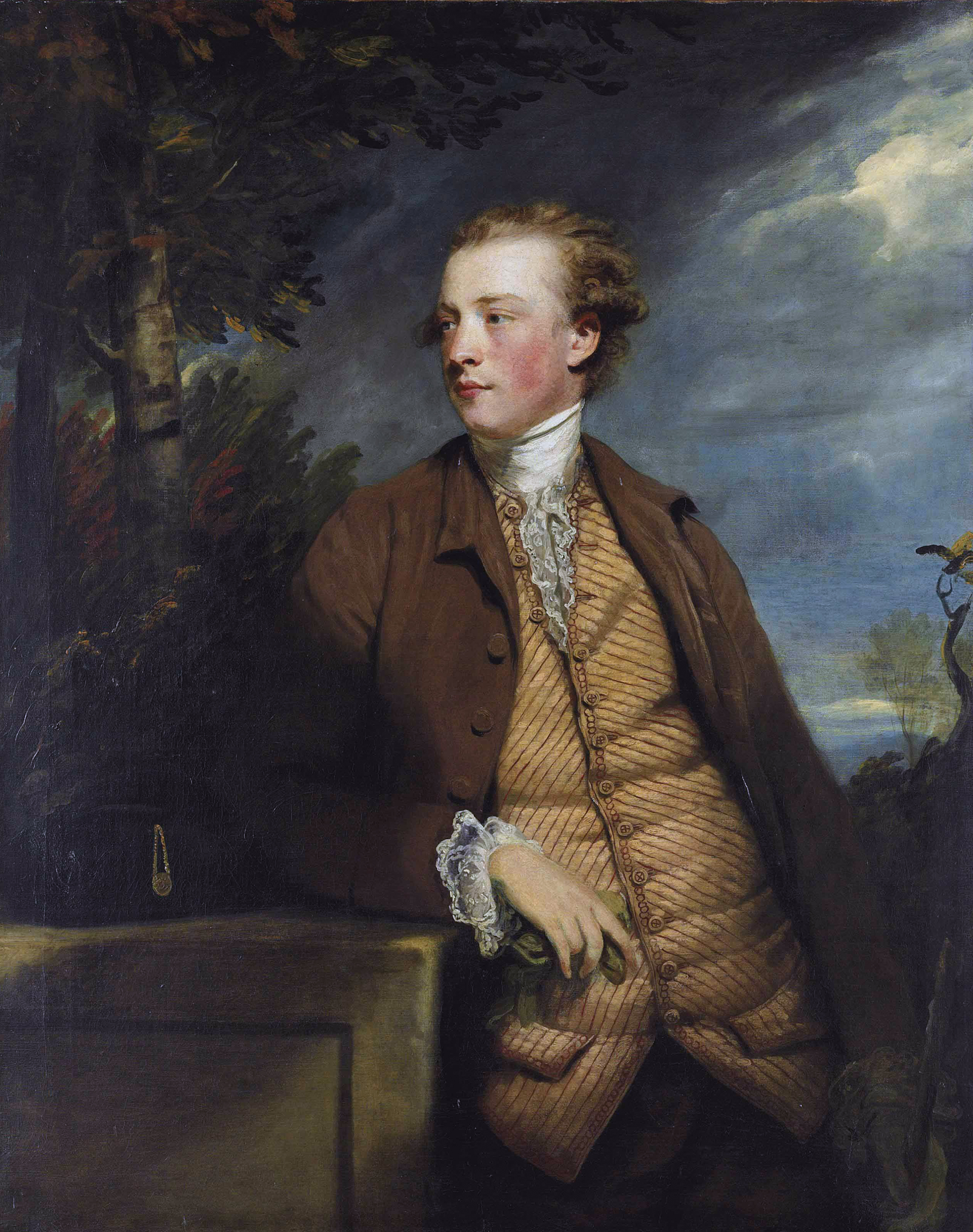 Denis Daly (1747-1791)